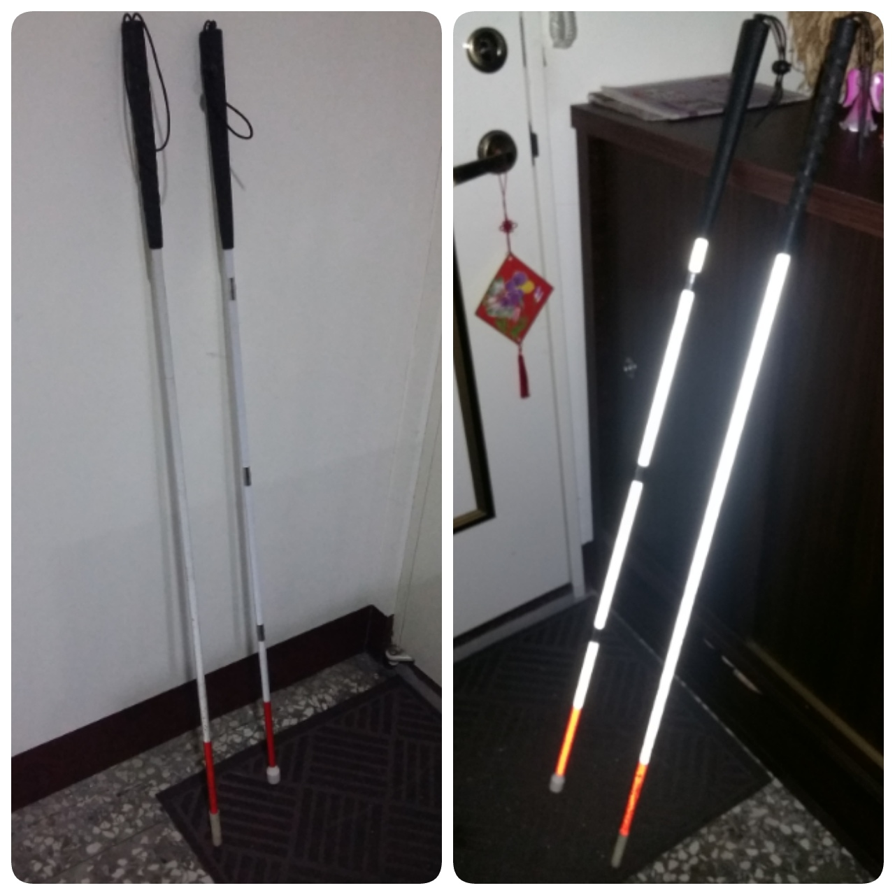 A blind is using a white cane